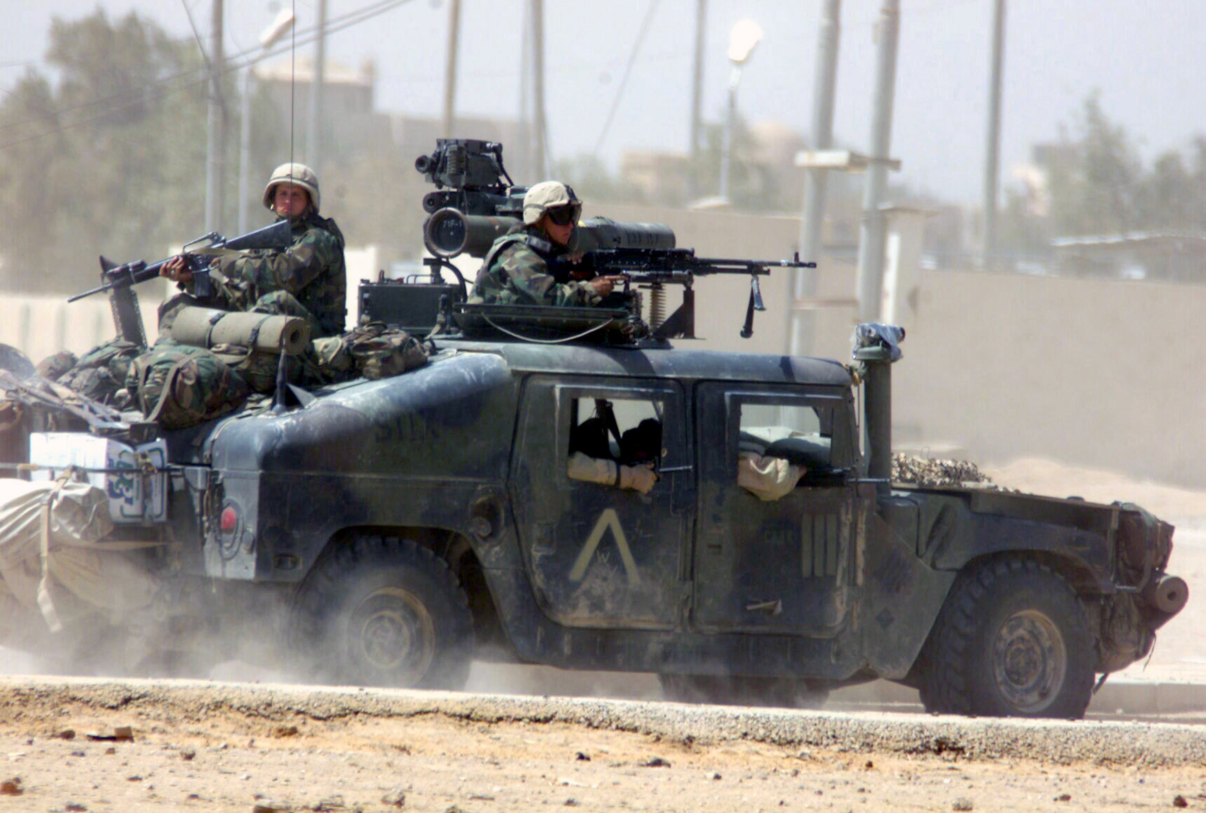 Nasiriyah, Iraq (Apr. 1, 2003) -- U.S. Marines from Task Force Tarawa move to support fellow Marines in a High Mobility Multipurpose Wheeled Vehicle (HMMWV) equipped with a 50 cal. heavy machine gun attached to it during a fire-fight in Nasiriyah. Task Force Tarawa is conducting combat missions in support of Operation Iraqi Freedom, the multi-national coalition effort to liberate the Iraqi people, eliminate Iraq’s weapons of mass destruction, and to end the regime of Saddam Hussein. U.S. Marine Corps photo by Lance Cpl. Gordon A. Rouse. (RELEASED)